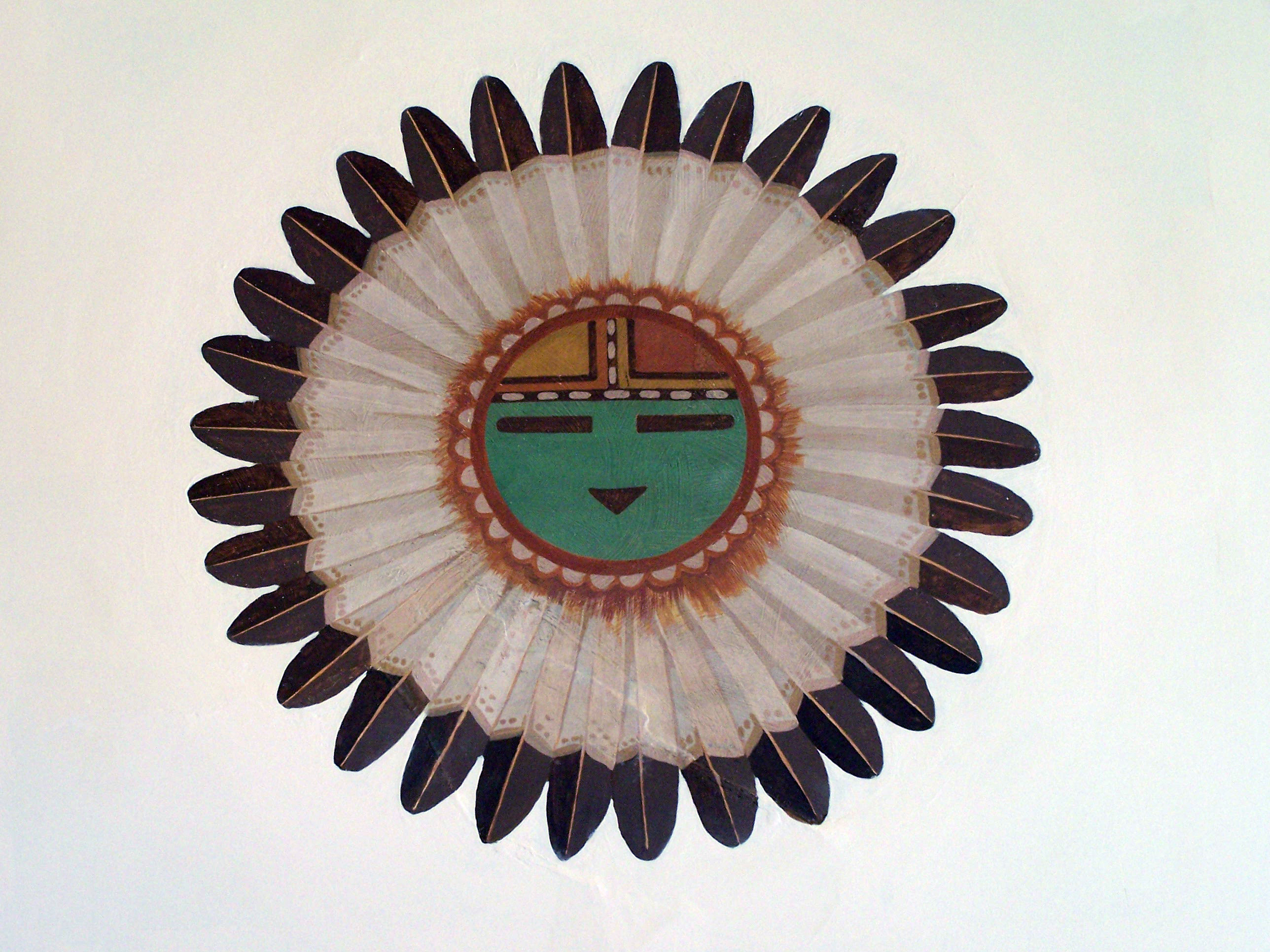 A mural depicting Tawa, the sun spirit and creator in Hopi mythology. Painted Desert Inn, Petrified Forest National Park, Arizona.